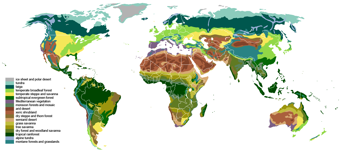 The main biomes in the world. Drawn by hand using maps.